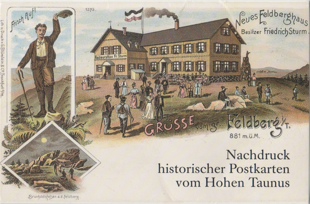 Old postal card of the Great Feldberg in the Taunus Mountains